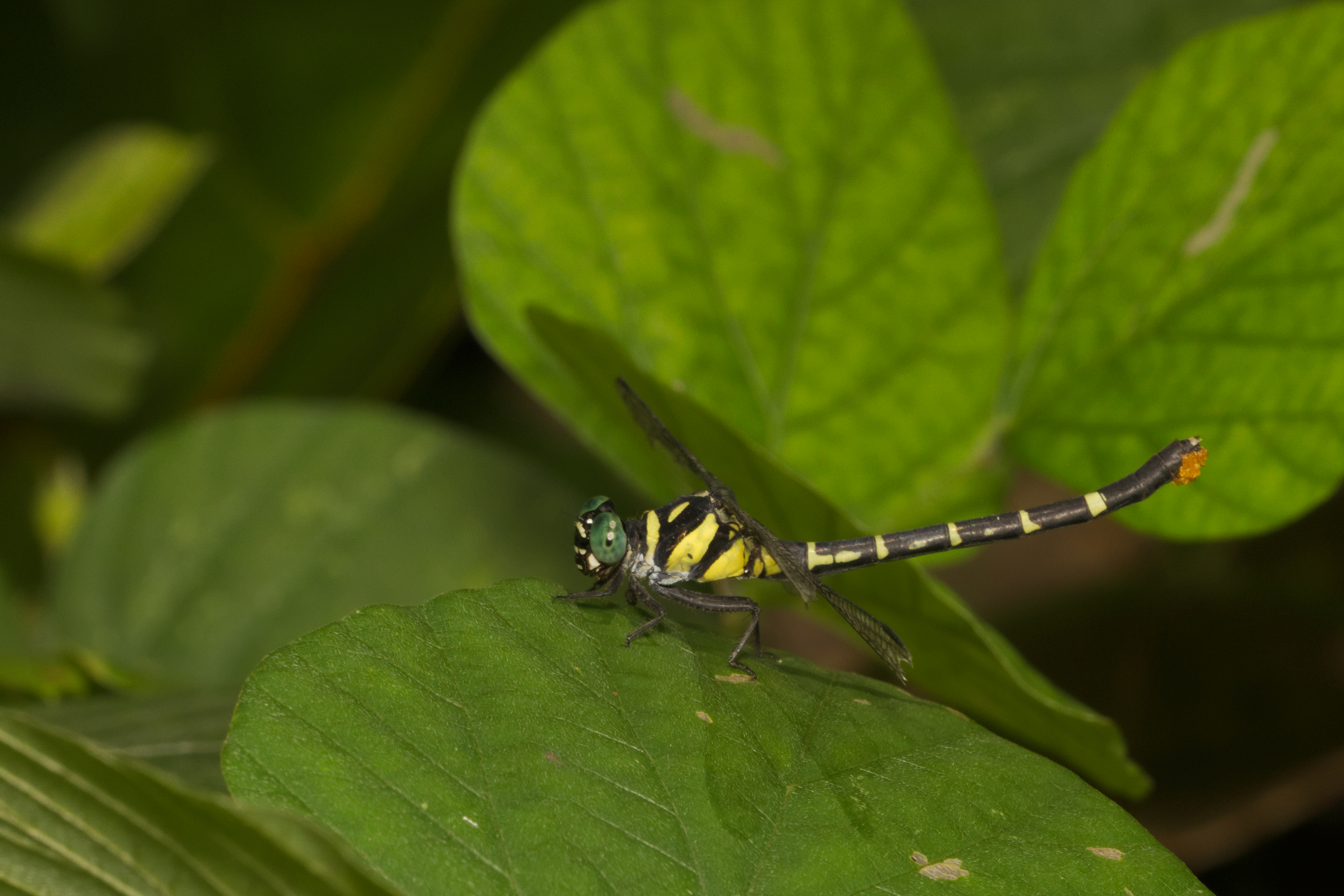 Microgomphus souteri is a gomphid, restricted to forest streams. Found in Kodagu in Karnataka, and Ernakulam, Idukki districts in Kerala. A cluster of eggs ready to deploy in water is visible on the tail end. (ID confirmed by Noppadon Makbun and Aby P. Varghese.) Ref